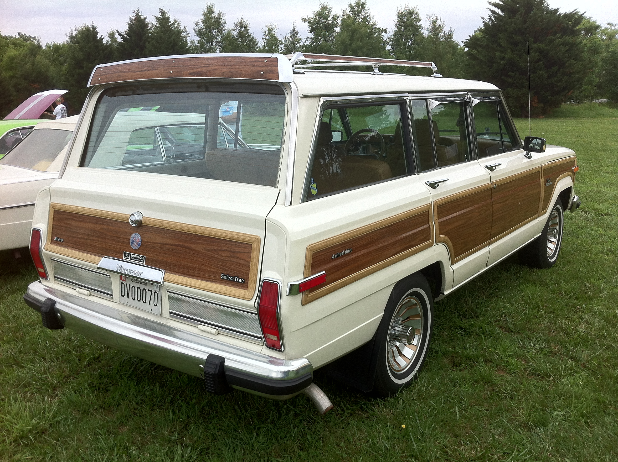 1986 Jeep Grand Wagoneer (SJ) finished in white. Rear right view. Original owner. Picture taken at the 23rd East Coast AMC Day held at the Mason-Dixon Dragway located near Boonsboro, Maryland.